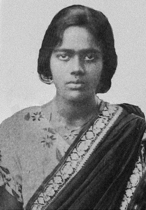 Picture of Pritilata Waddedar (5 May 1911 – 23 September 1932) Pritilata Waddedar (Bengali: প্রীতিলতা ওয়াদ্দেদার) (5 May 1911 – 23 September 1932) was an Indian anti-British revolutionary (Photograph taken of subject deceased in 1933. Under Indian and Bangladeshi copyright law, the photograph is in public domain. Photograph taken of subject deceased in 1933. Under Indian and Bangladeshi copyright law, the photograph is in public domain.)